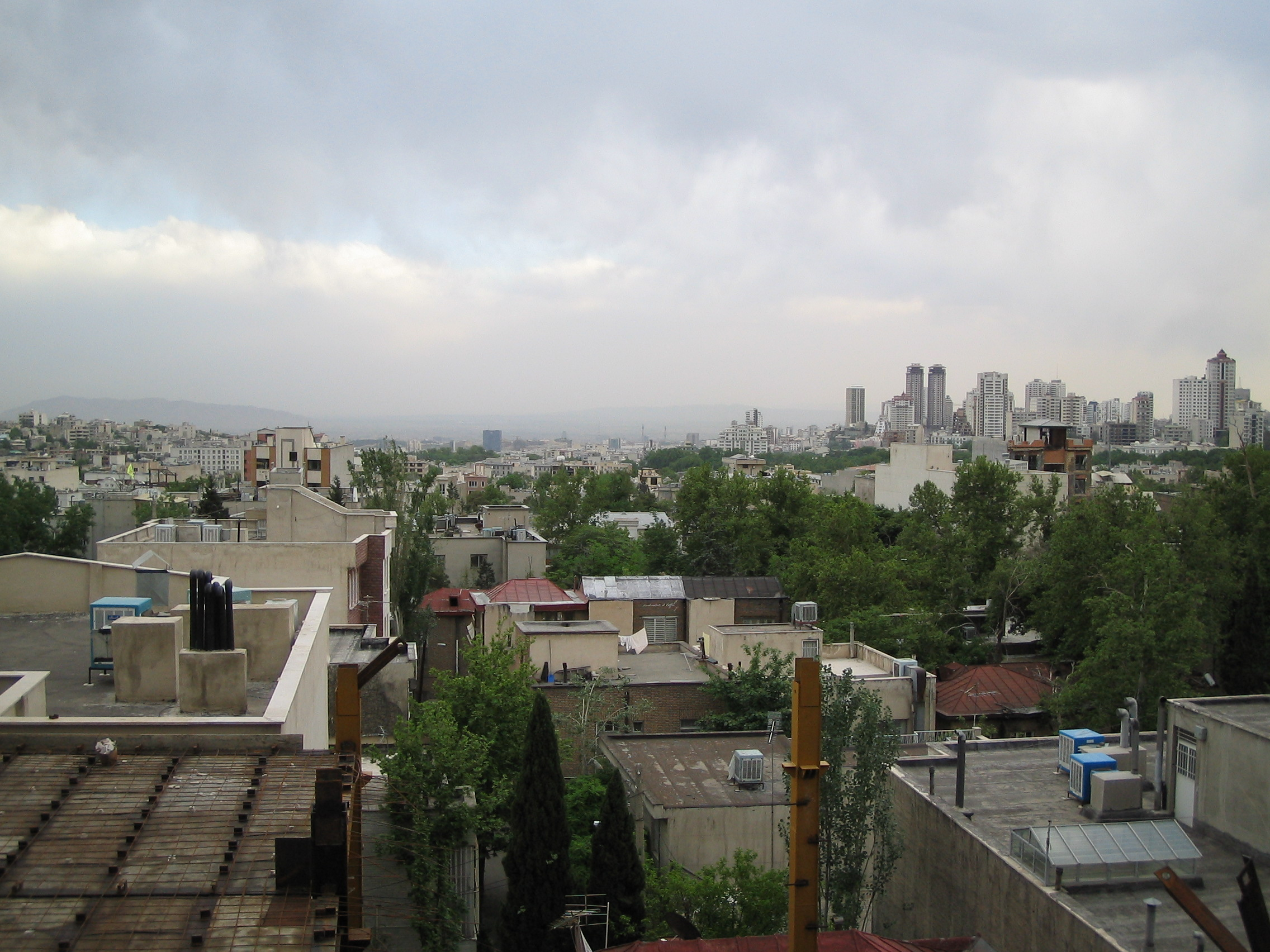 Tehran seen from back of Tajrish